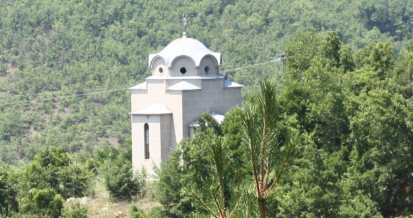 Derviška Niva Monument, Macedonia